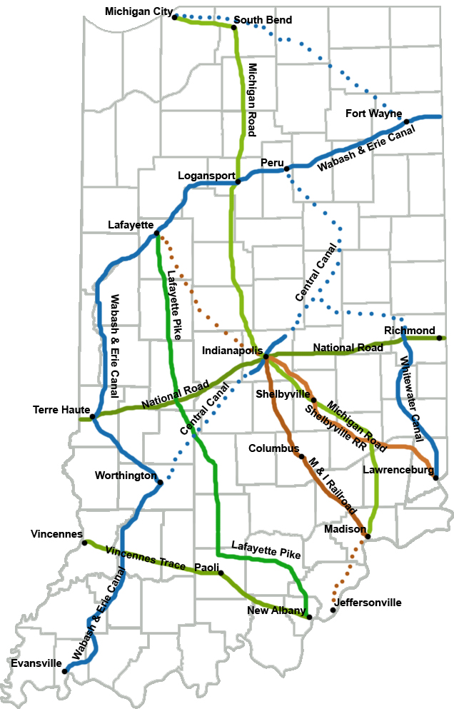 Project funded by Indiana's Mammoth Internal Improvement Act. Yellow=Wabash and Erie,Purple=Madison & Indiapolis RR,Red=Whitewater Canal and Central Canal, Pink=Vincennes Trace, Green=Michigan Road